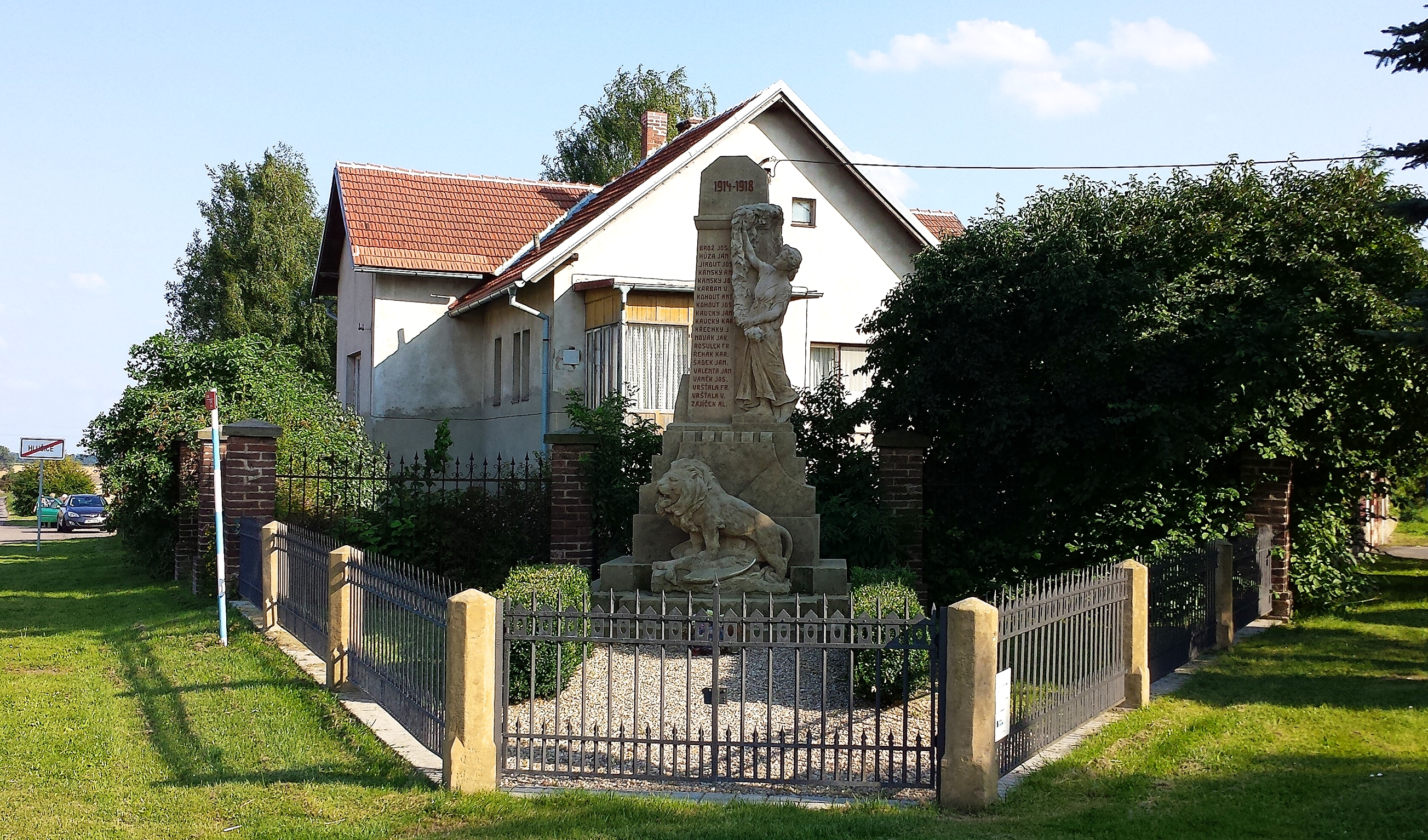 Memorial in Hlušice, commemorating locals fallen in the World War I (Hradec Králové Region, Czechia).